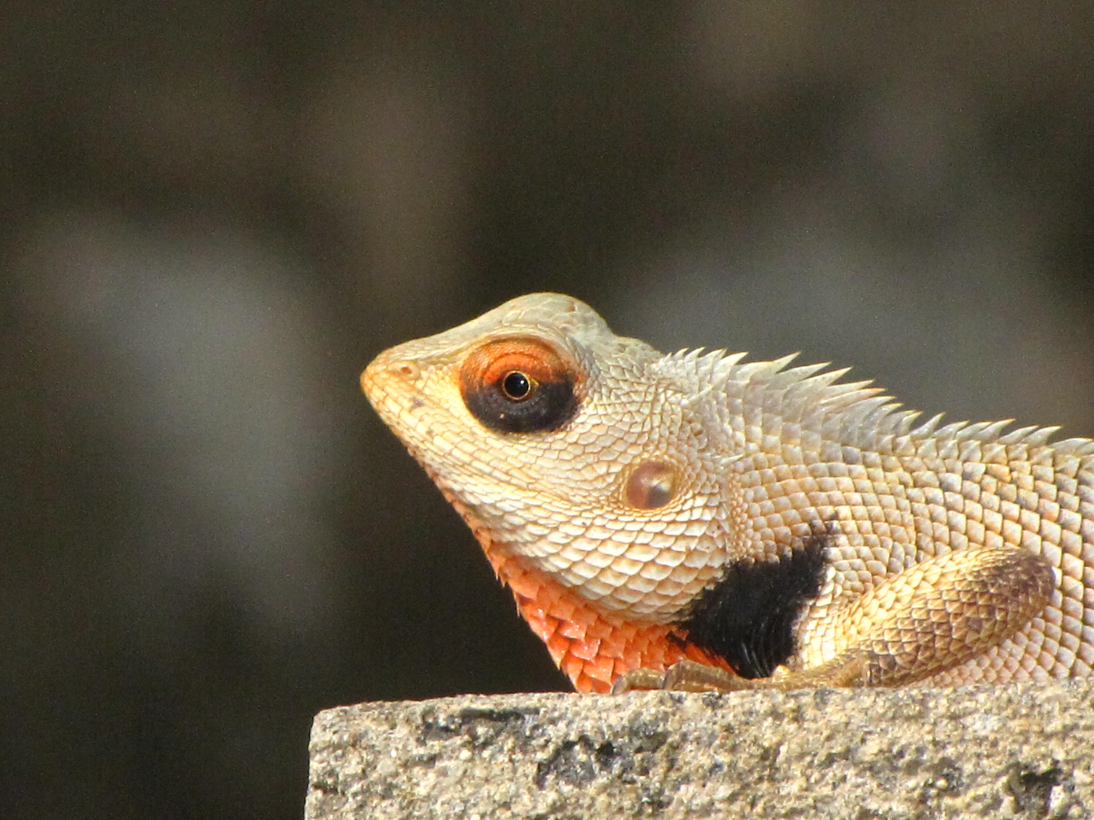 Mating Display of Calotes versicolour